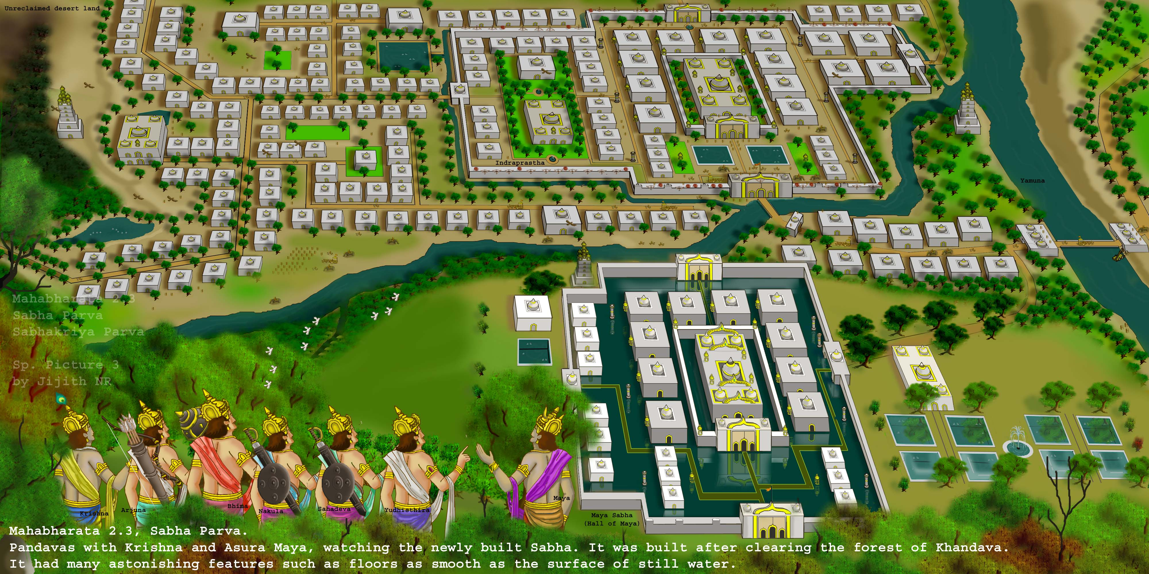 Maya Sabha built after clearing the forest of Khandava